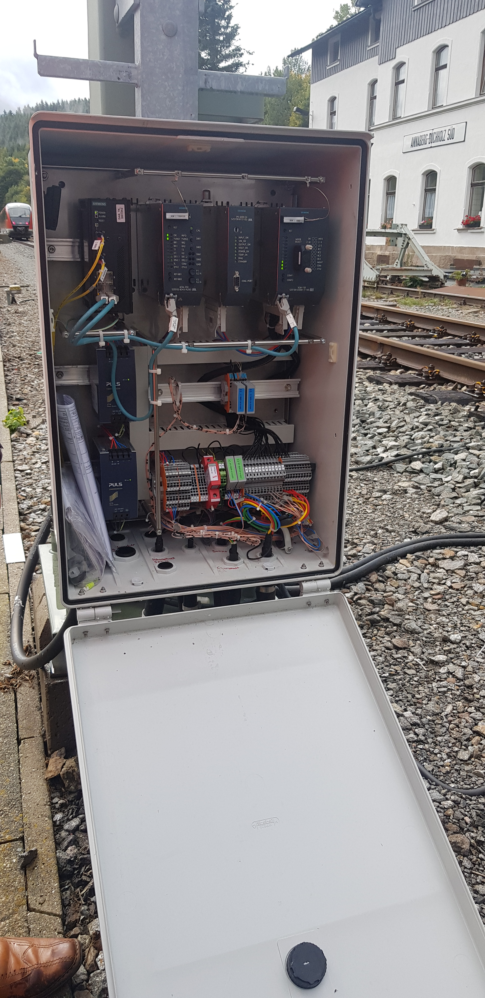 Control box at a Ks main signal at Annaberg-Buchholz Süd station, controlled by Germany's first “digital” interlocking.